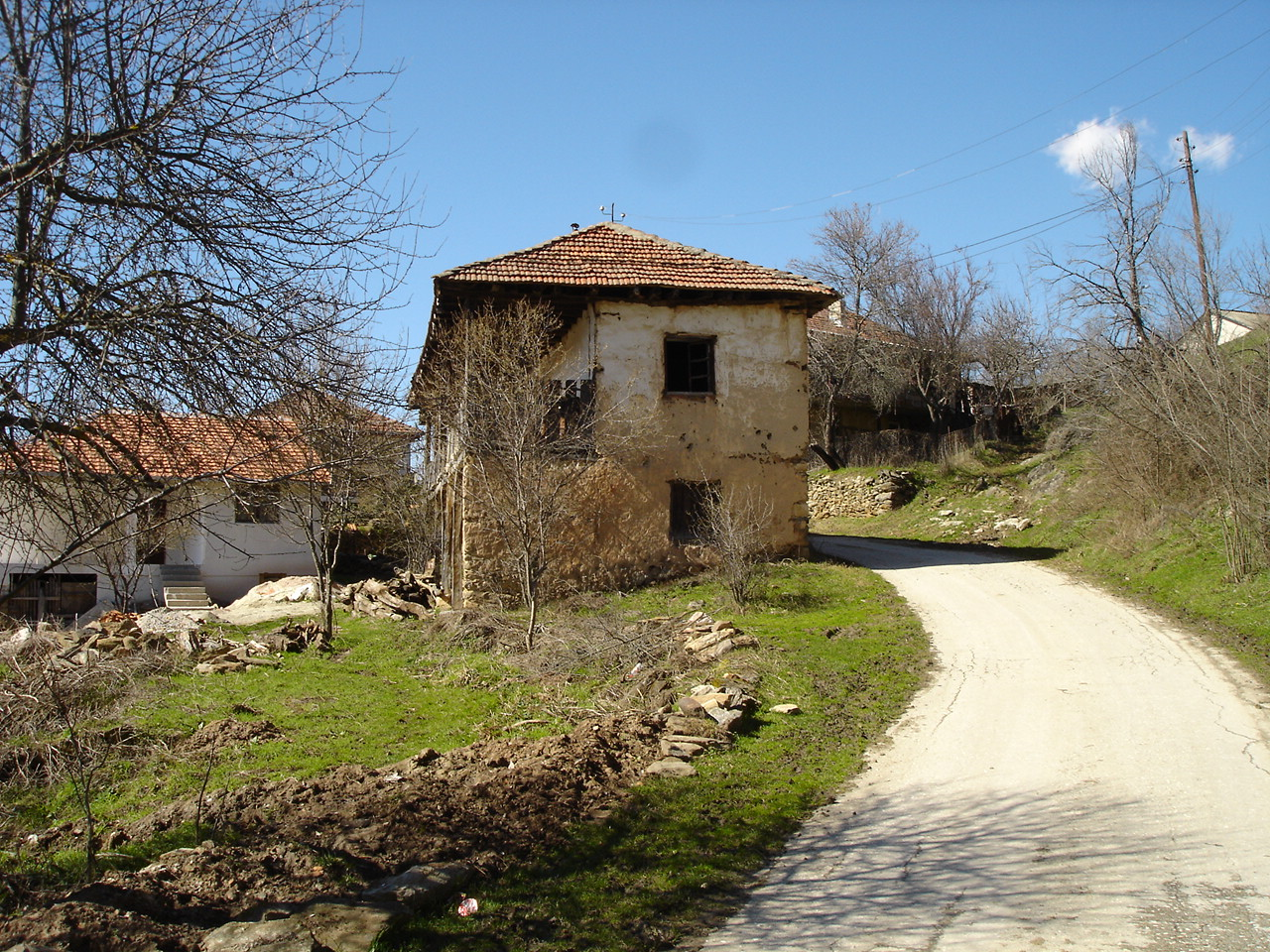 village of Osinchani, in Studeničani Municipality, Macedonia